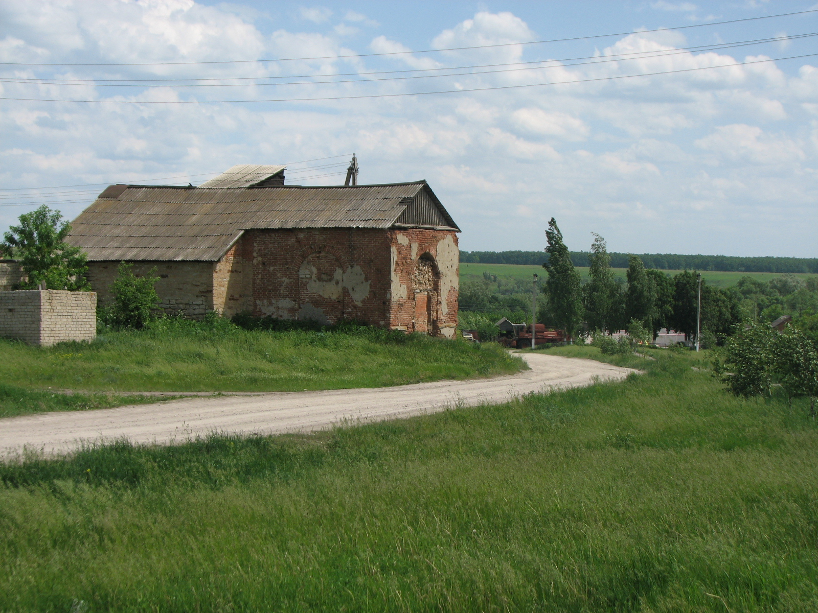 Church ruins in the village of B. Verejka, where Alexander Lizyukov ordered the 27th tank brigade commander to prepare a KV tank for him.